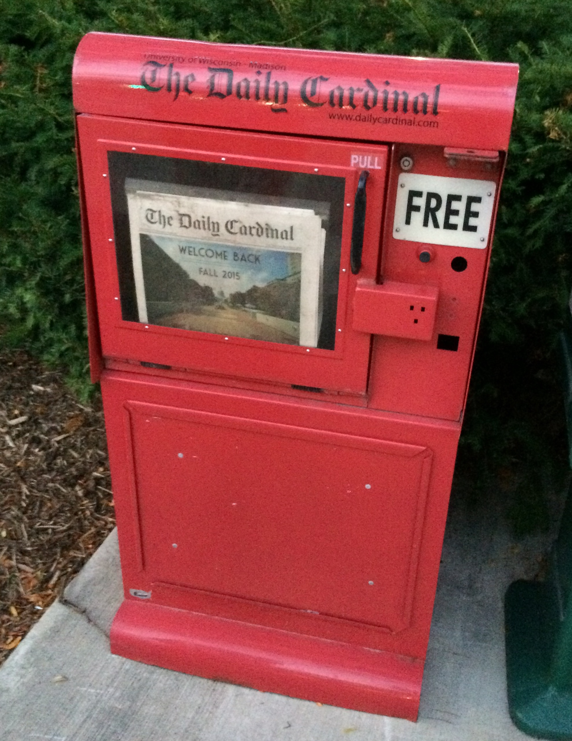 A Daily Cardinal newspaper box outside Vilas Hall on the University of Wisconsin-Madison campus, featuring the Daily Cardinal Fall 2015 Welcome Back issue.